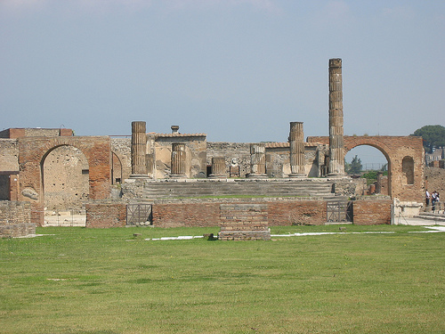 Front view of the Temple of Jupiter in Pompeii.